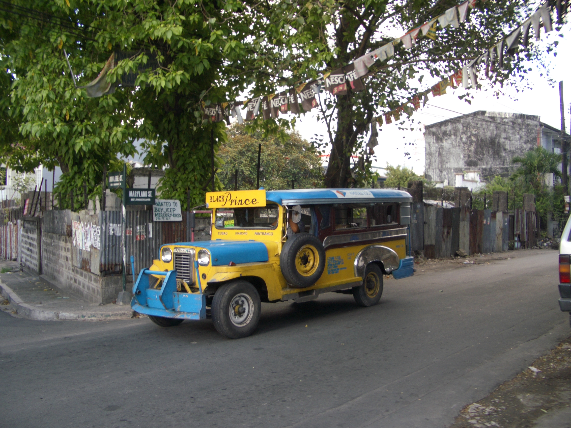 A colourfull jeepney in Quezon City on the crossing of Maryland Street and Don A Egea